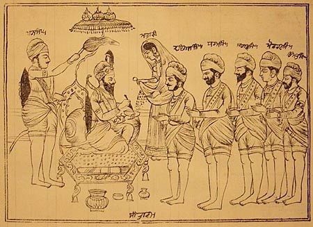 A depiction of Guru Gobind Singh initiating the first five members of the Khalsa Woodcut, Amritsar or Lahore, about 1874-5